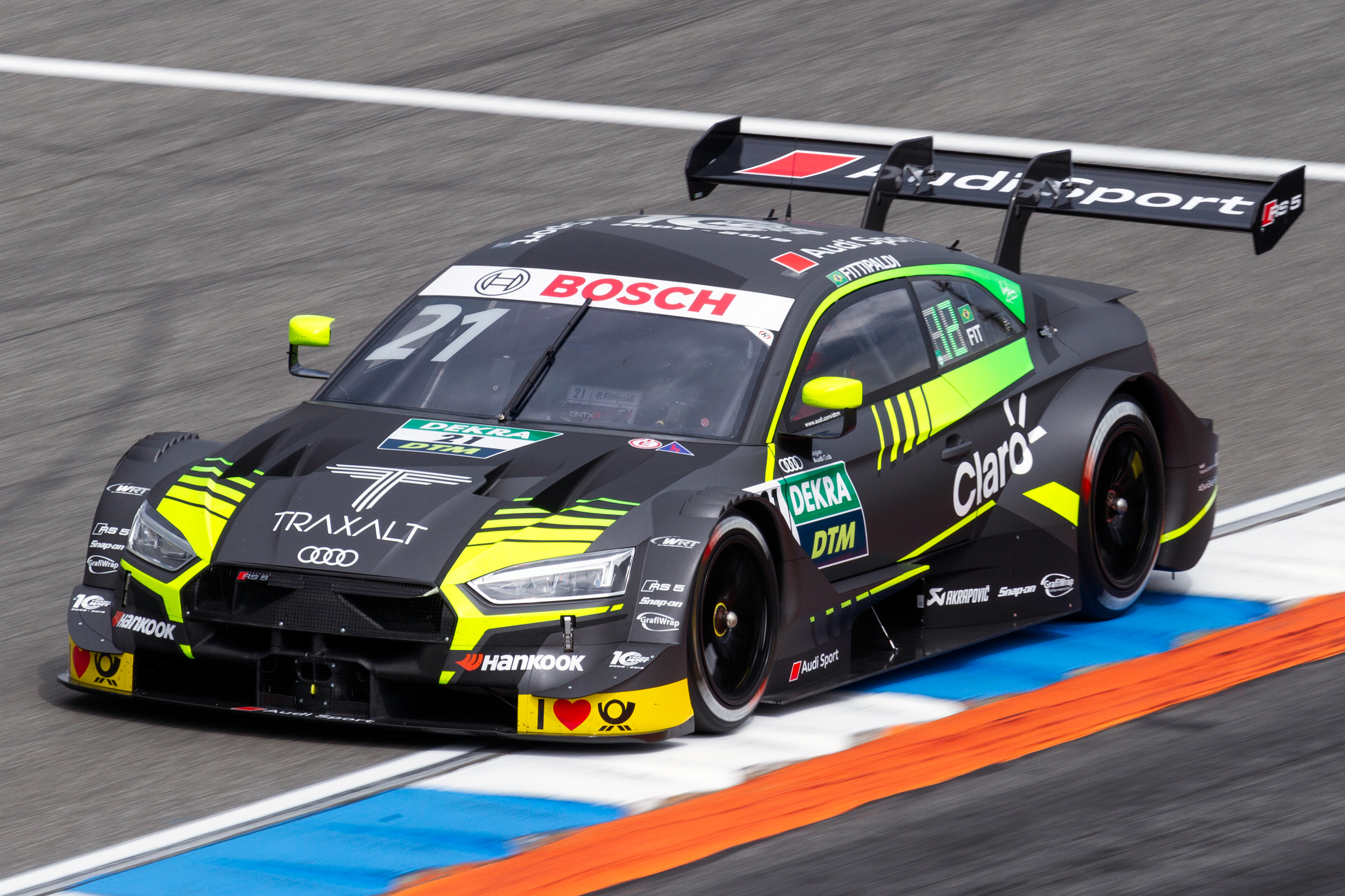 2019 DTM Hockenheimring (May): Audi RS5 Turbo DTM of Pietro Fittipaldi